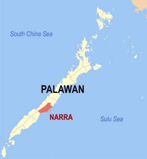 Map of Palawan showing the location of Narra